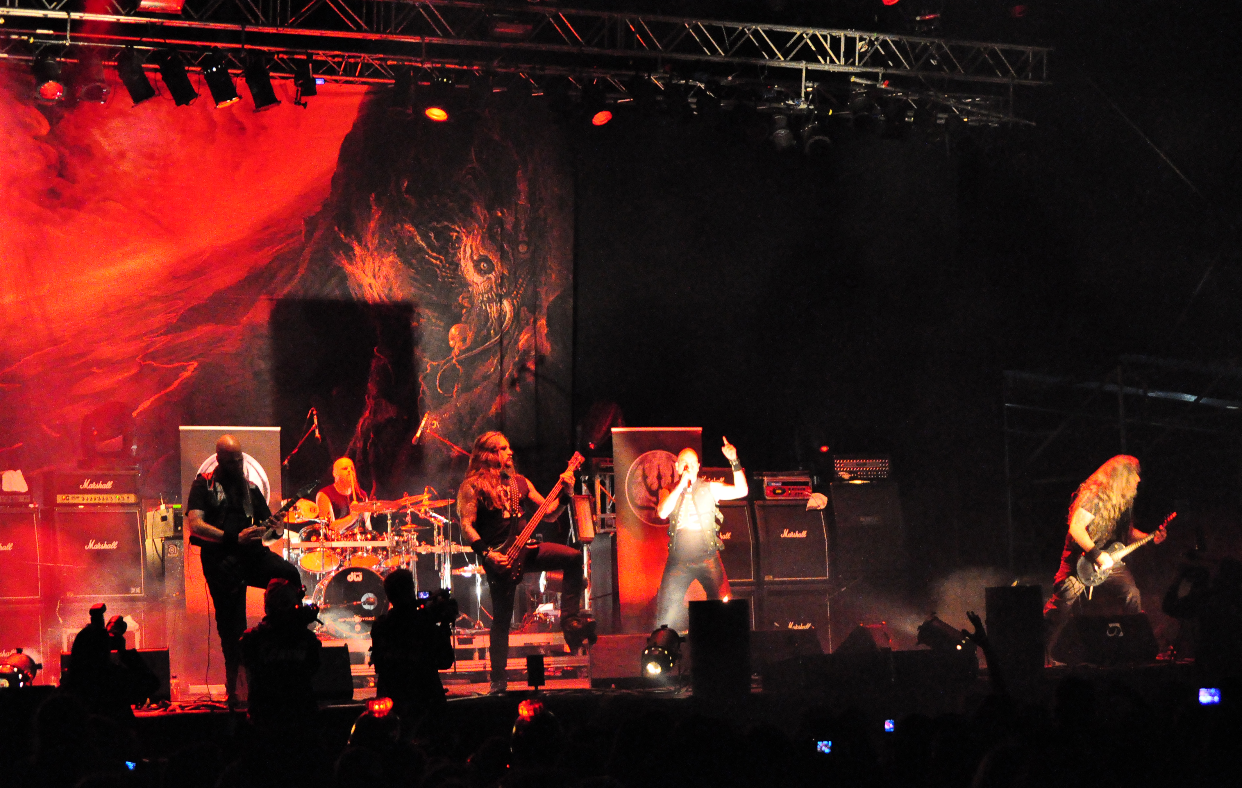 Naglfar at Party.San Open Air 2012